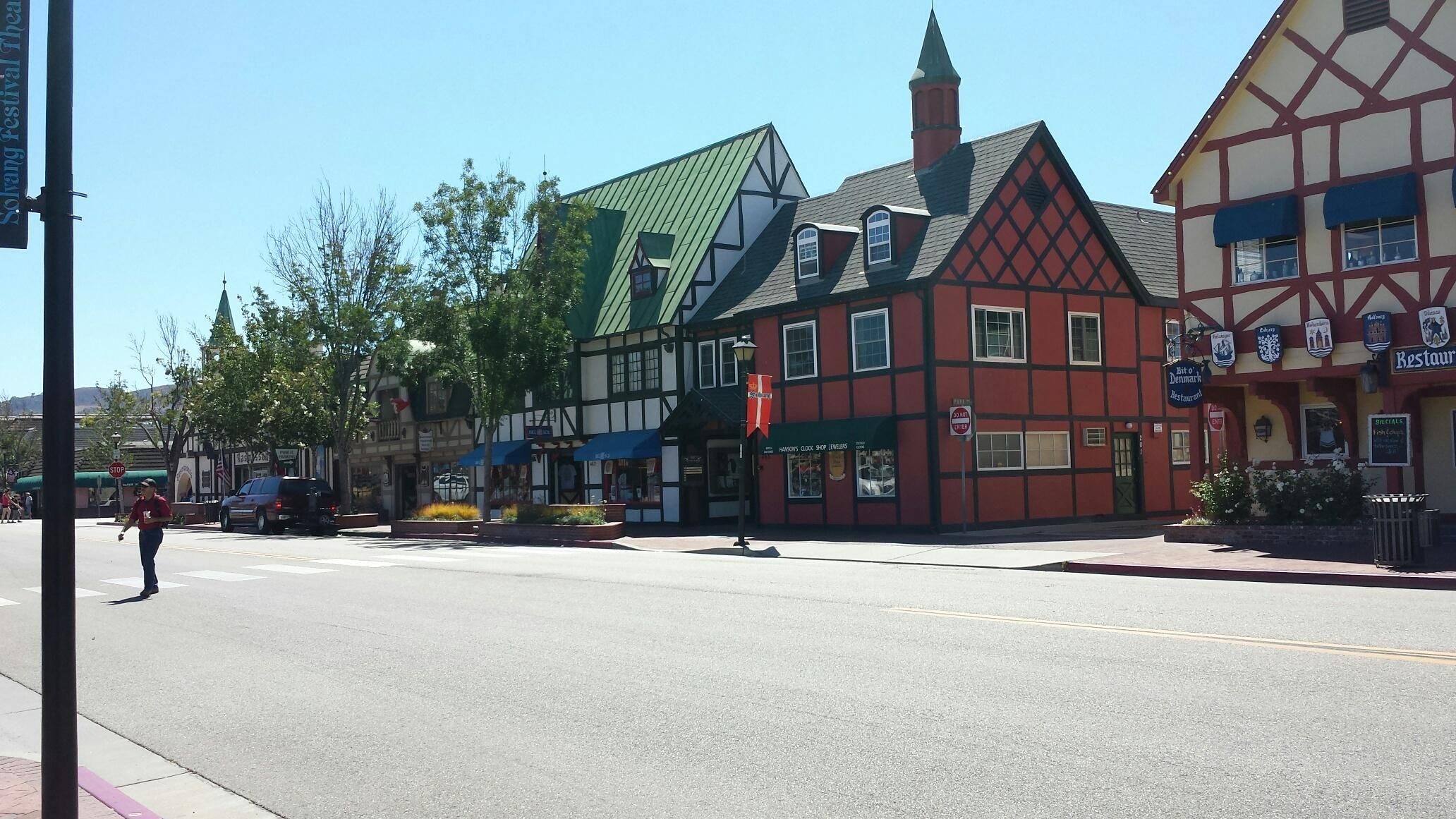 Solvang in August 2015